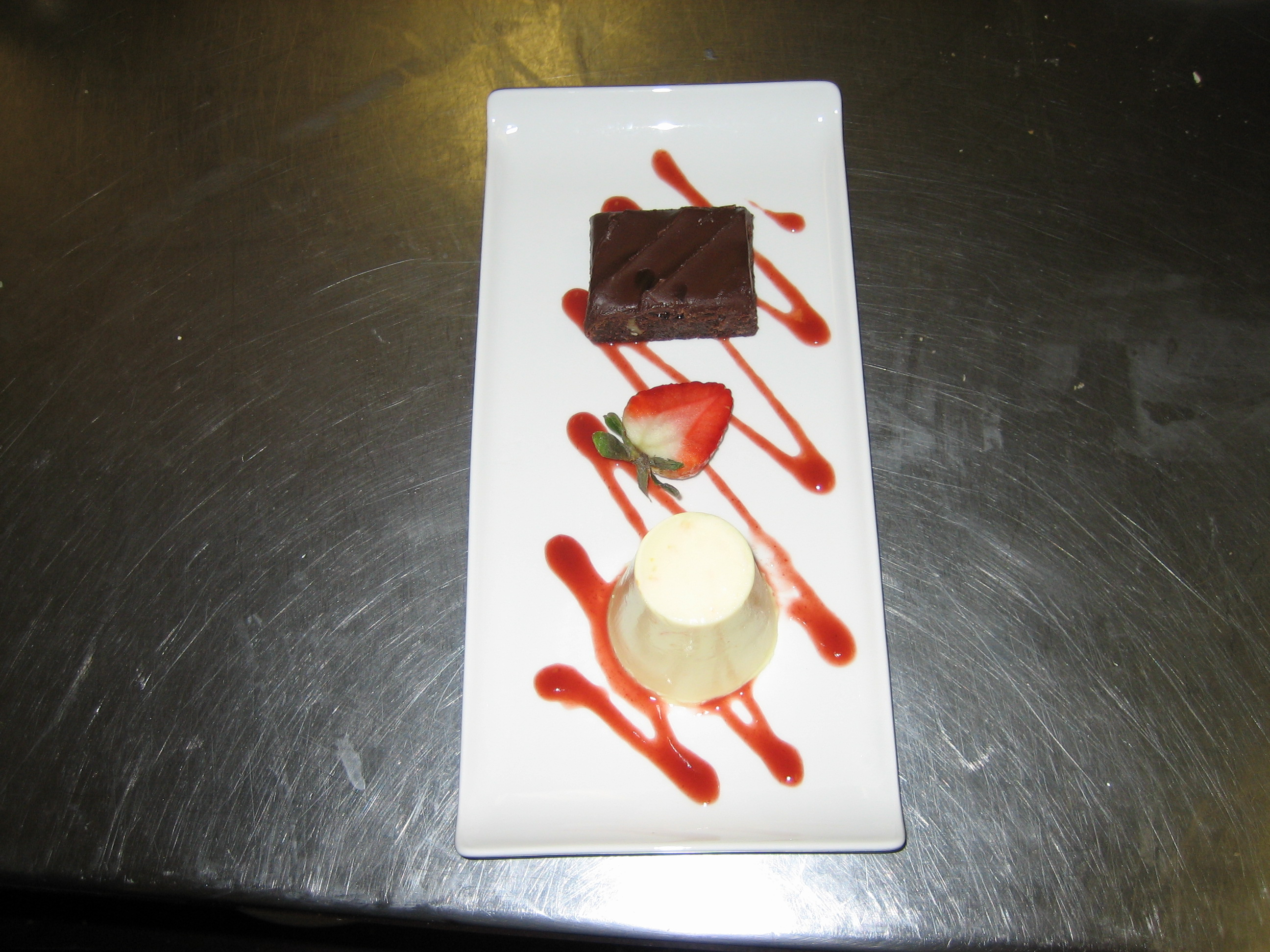 Image of an orange-infused Panna Cotta, with a chocolate and walnut brownie and strawberry coulis